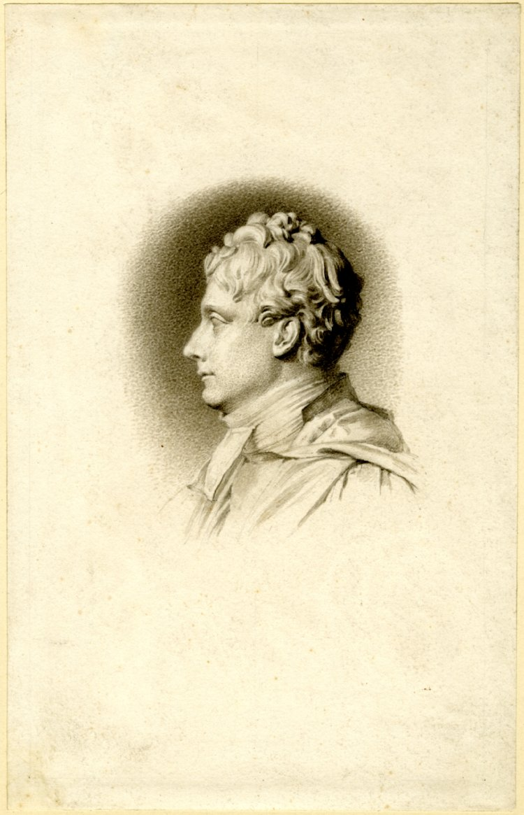 "Portrait of the Rev. Augustus William Hare," by the British painter and printmaker John Agar. Brush drawing in grey wash. 203 mm x 129 mm. Courtesy of the British Museum, London.